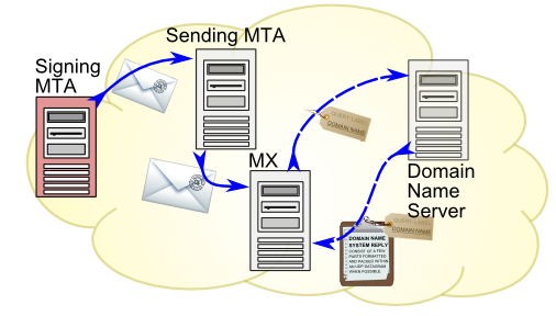 DKIM authenticates the message content using digital signatures and distributing keys via the DNS.